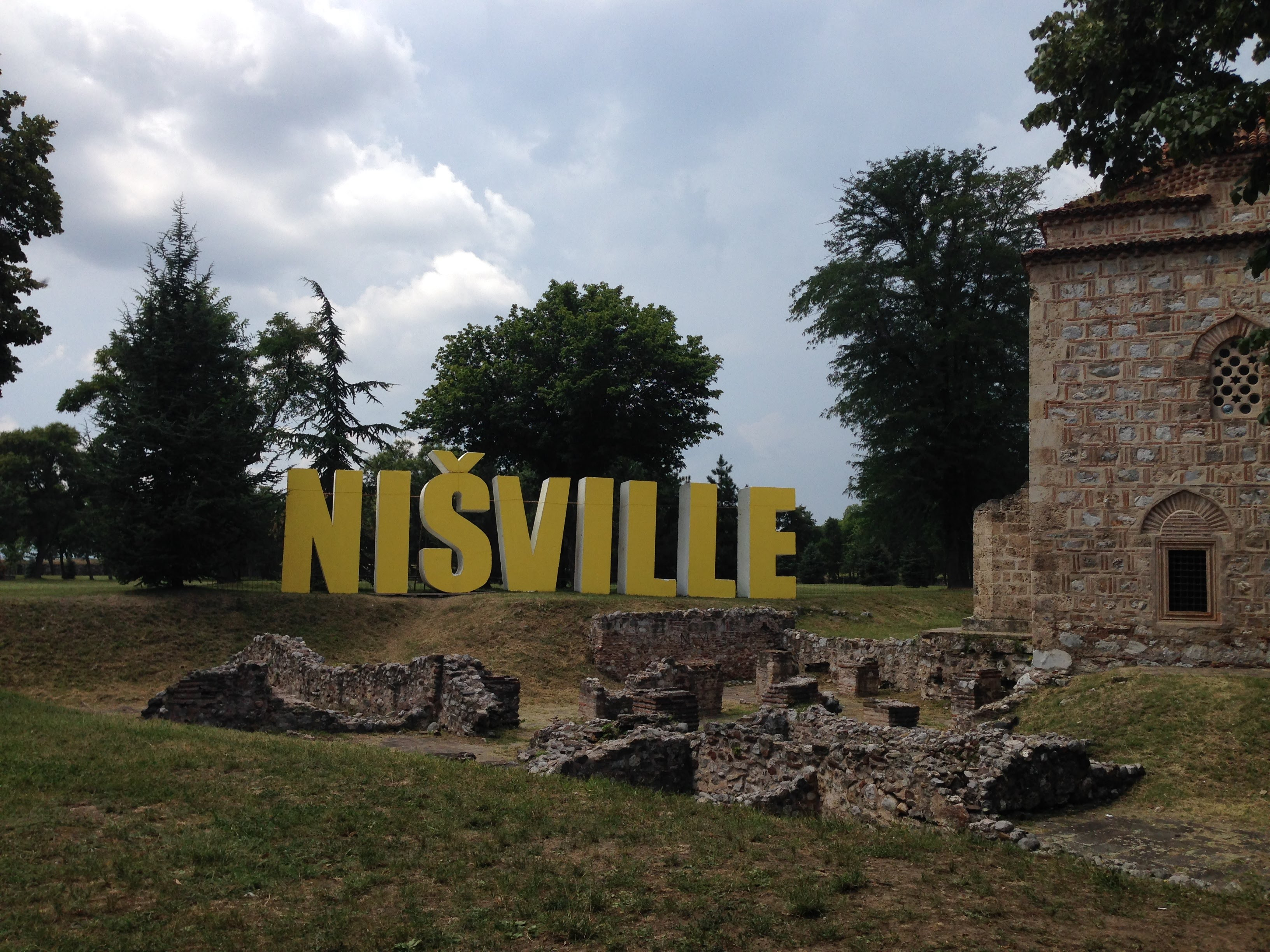 Nišville, annual summer music festival in the Ancient Fortress of Niš, Serbia.